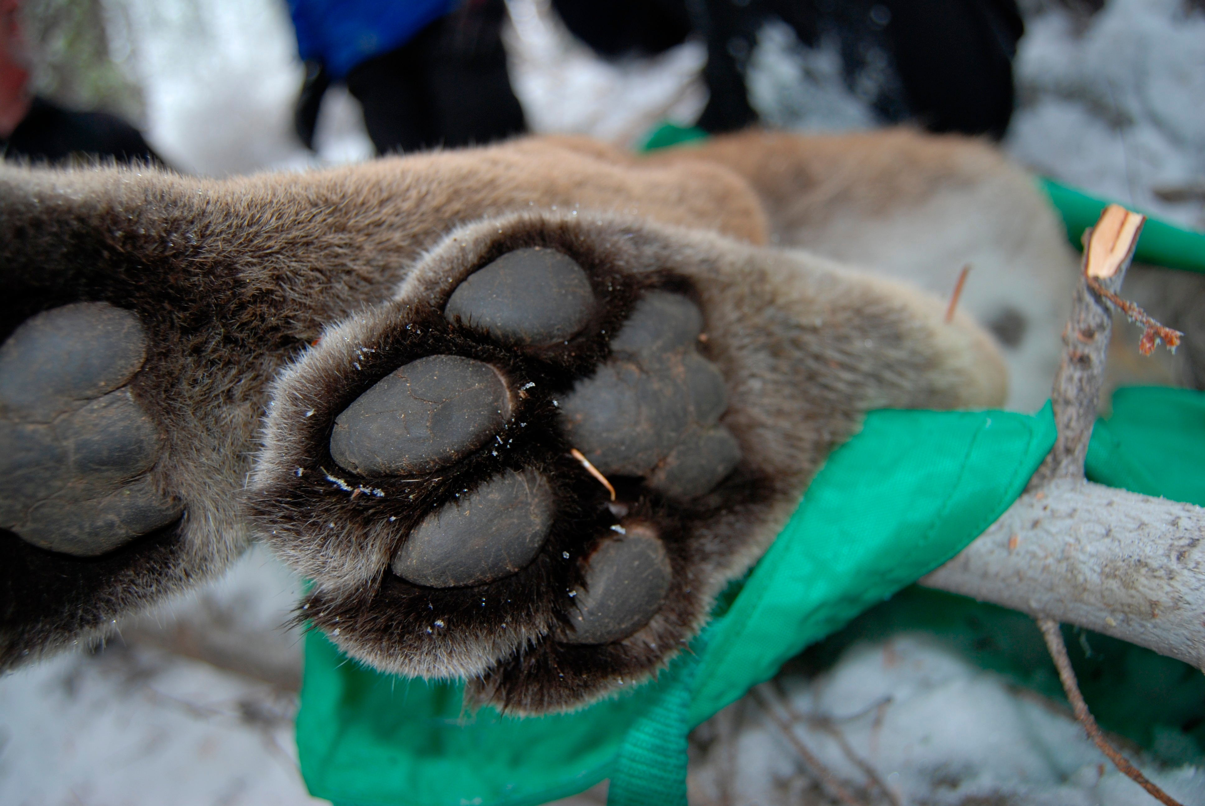 paw of cougar (Puma concolor)